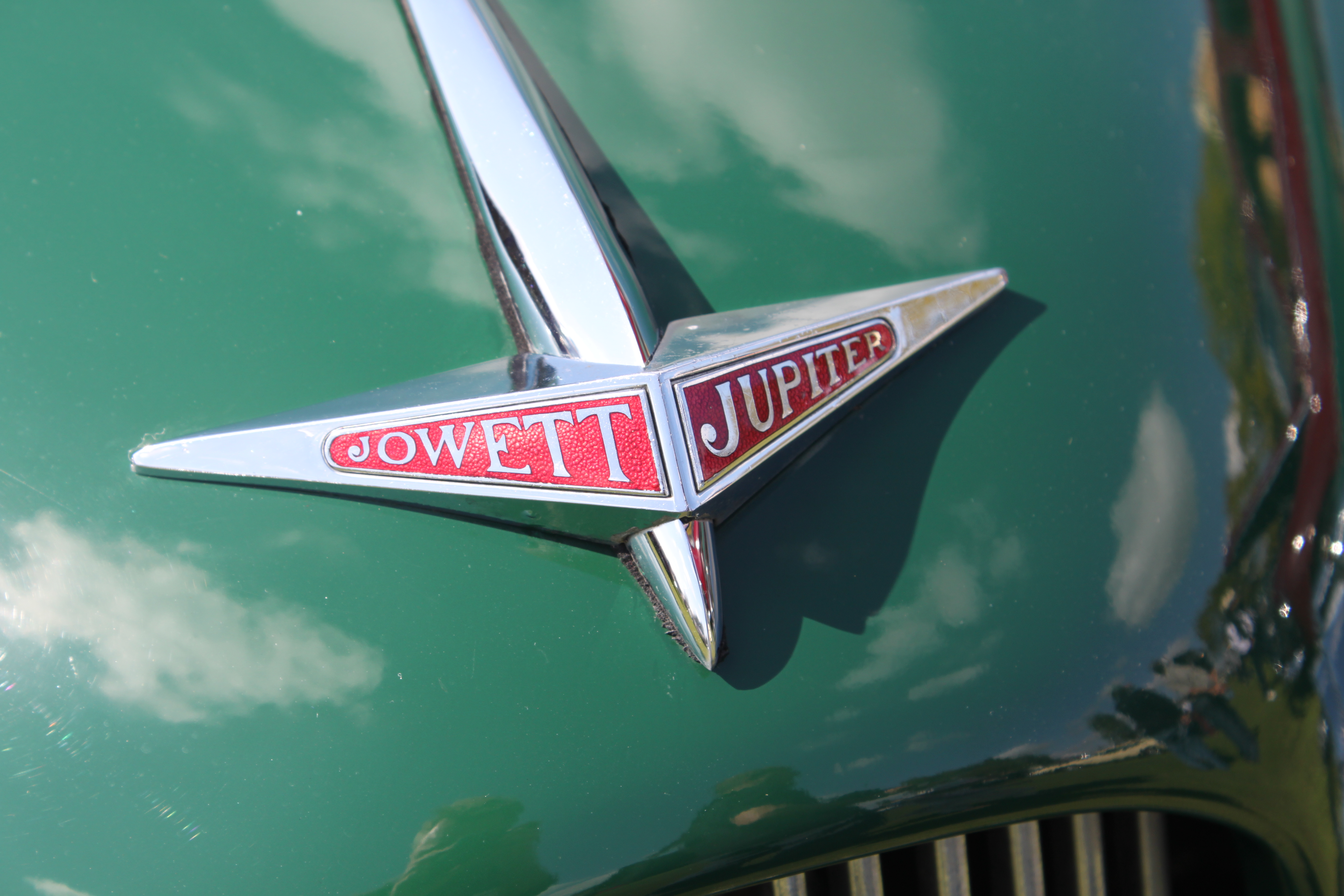 Jowett Jupiter